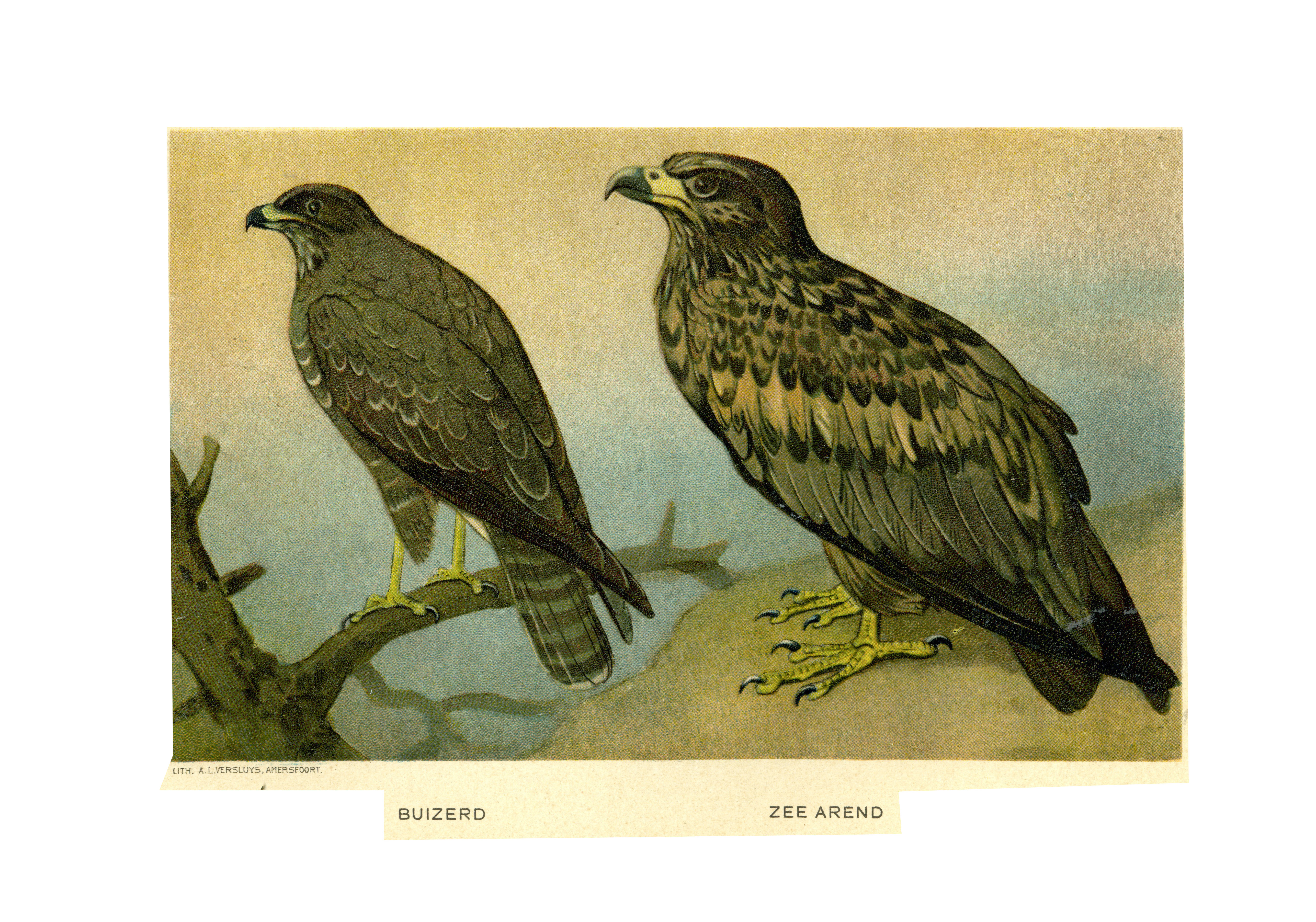 Common buzzard, White-tailed eagle. Family:Accipitridae